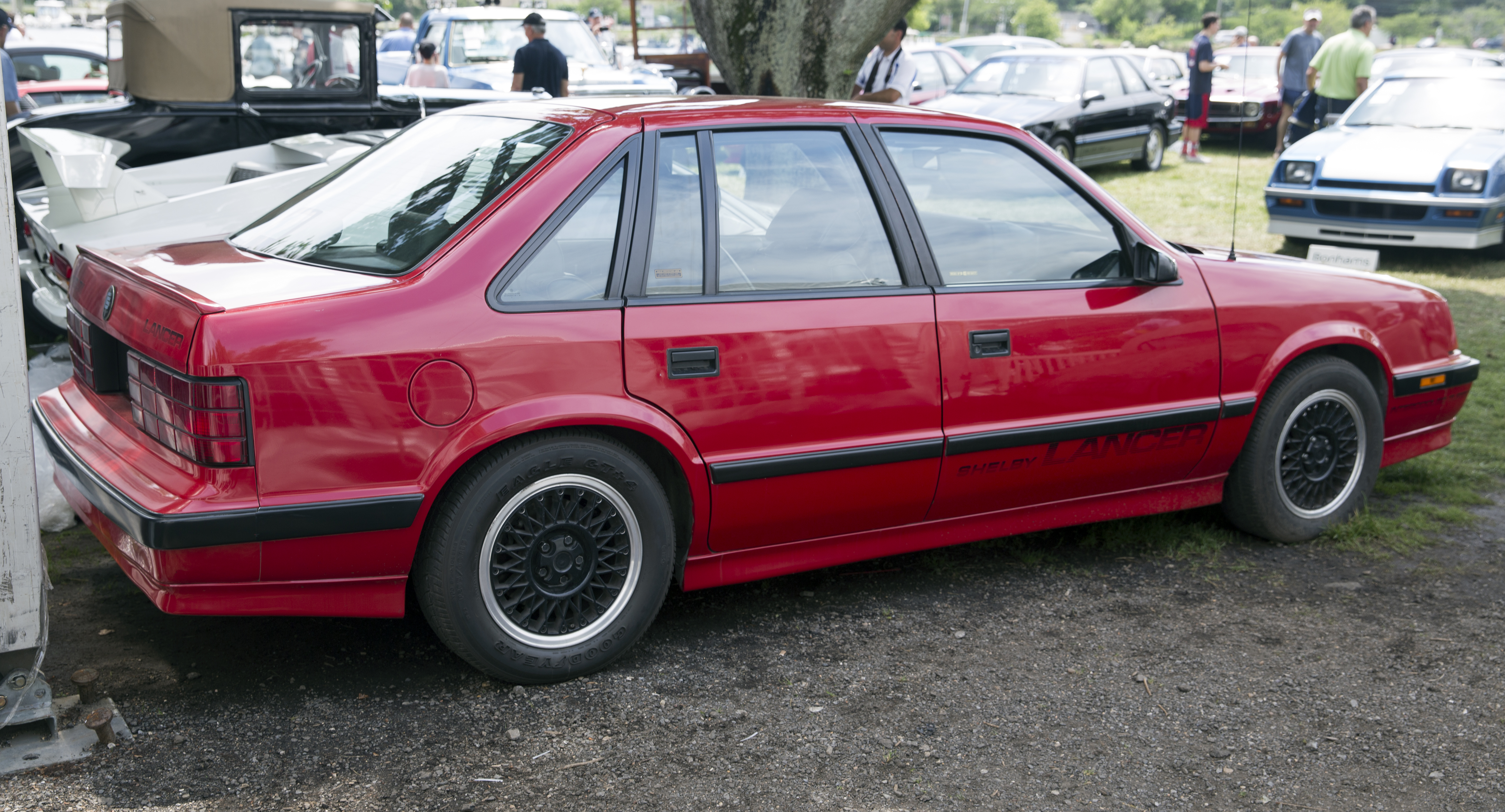 A 1987 Dodge Lancer Shelby, number 1 of 800 built. From Carroll's personal collection and offered for sale at the 2018 Greenwich Concours d'Elegance. Three-speed auto.